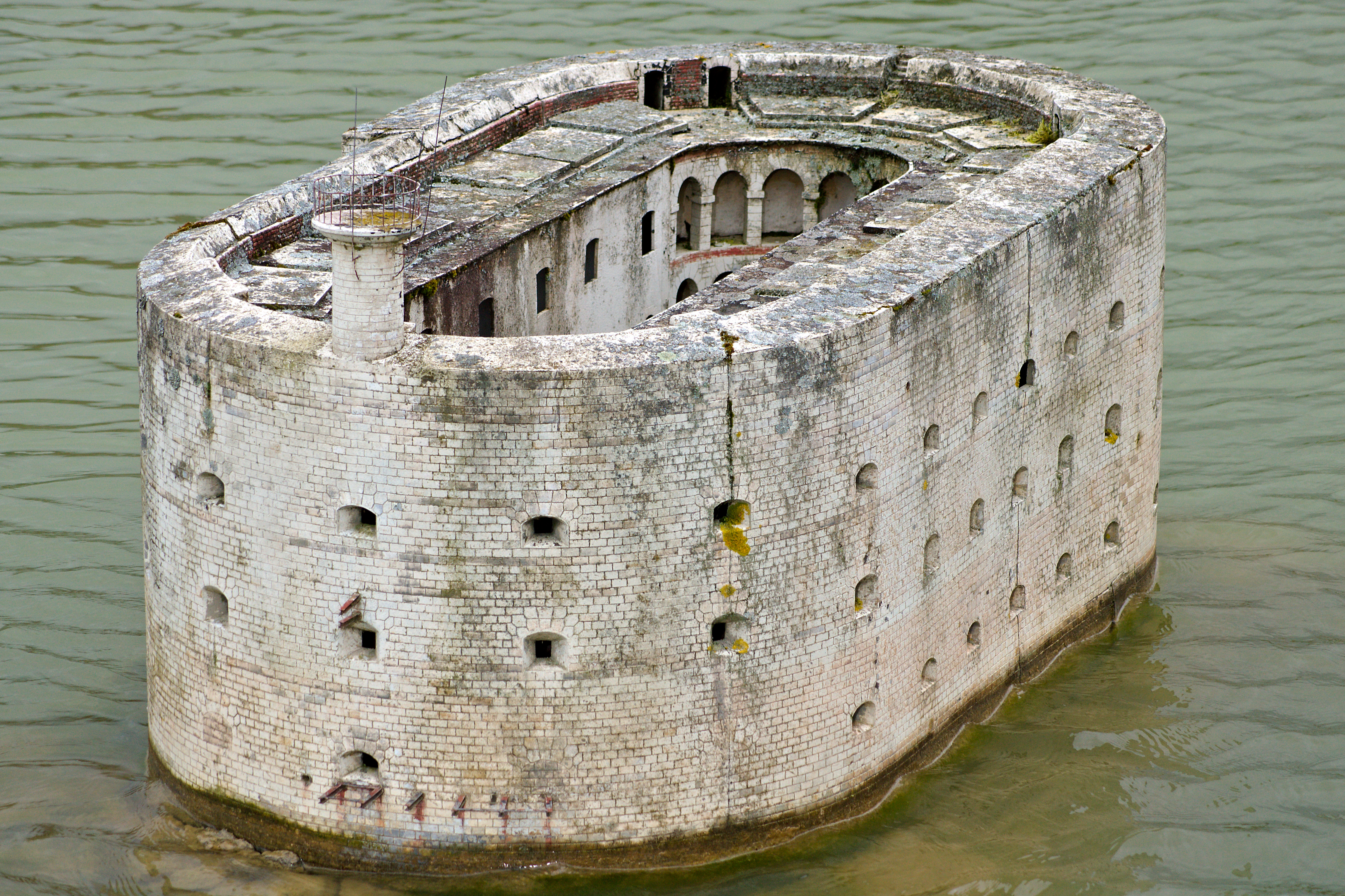 France Miniature, a miniature park tourist attraction in Élancourt, France.